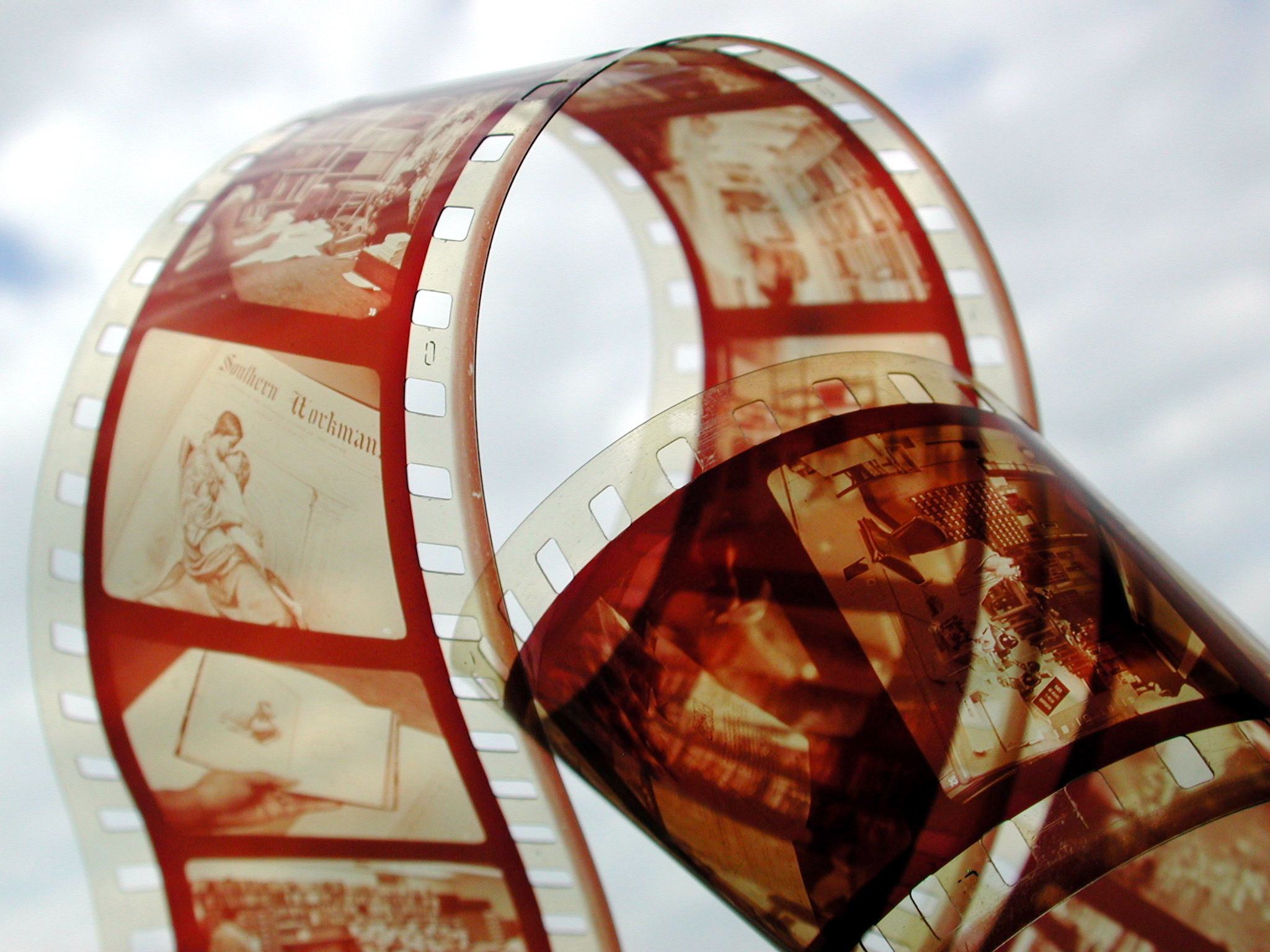 From the Coca Cola filmstrip, "Black Treasures." (1969)